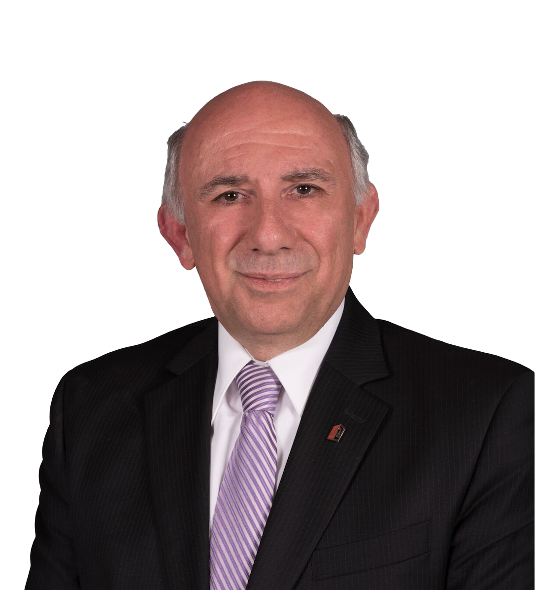 Photo of MPP Aris Babikian